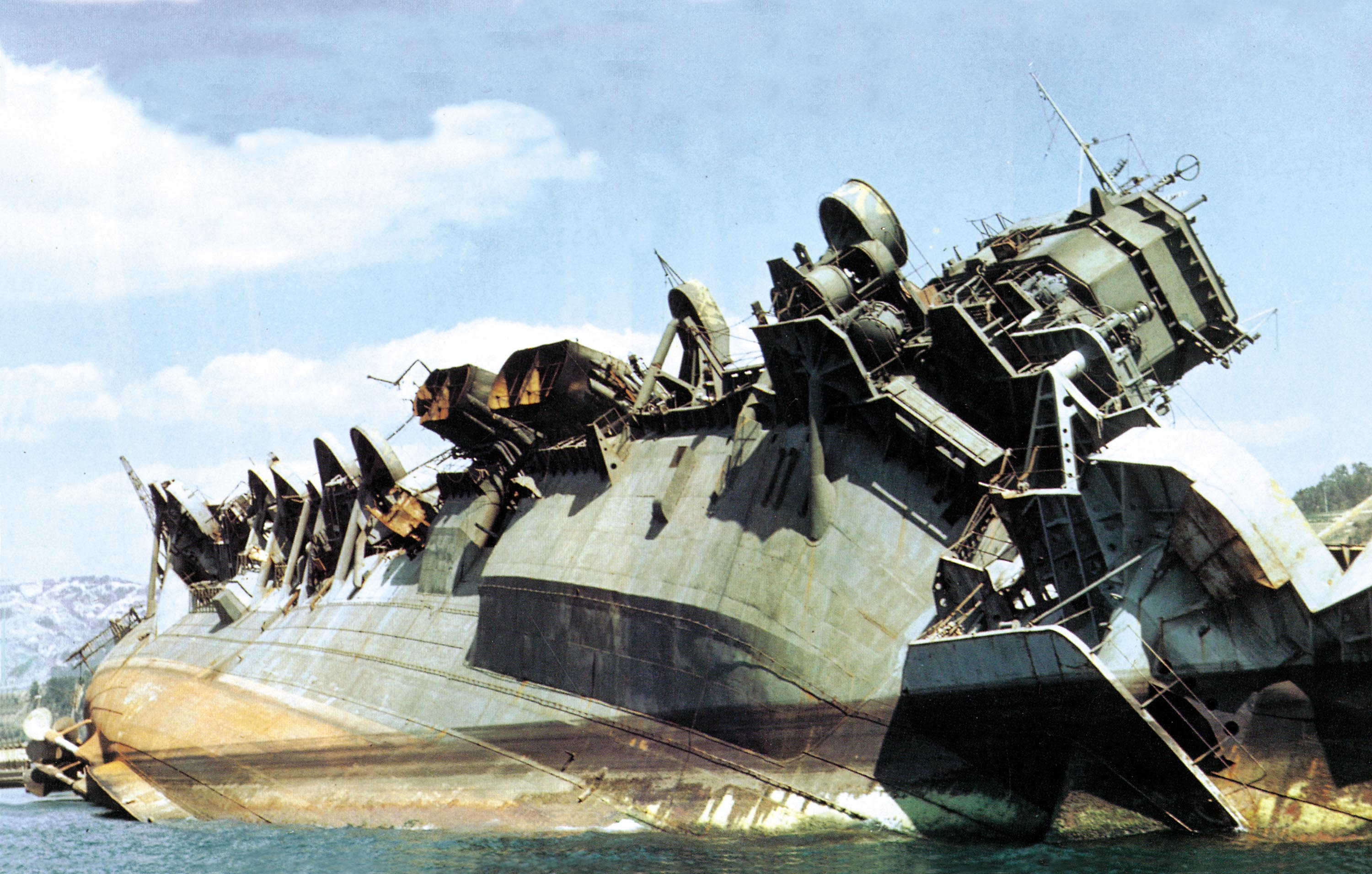 Imperial Japanese Navy's aircraft carrier Amagi capsized after U.S. navy air raid, Kure, Japan, 1946